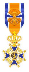 Officer, Order of Oranje Nassau Netherlands